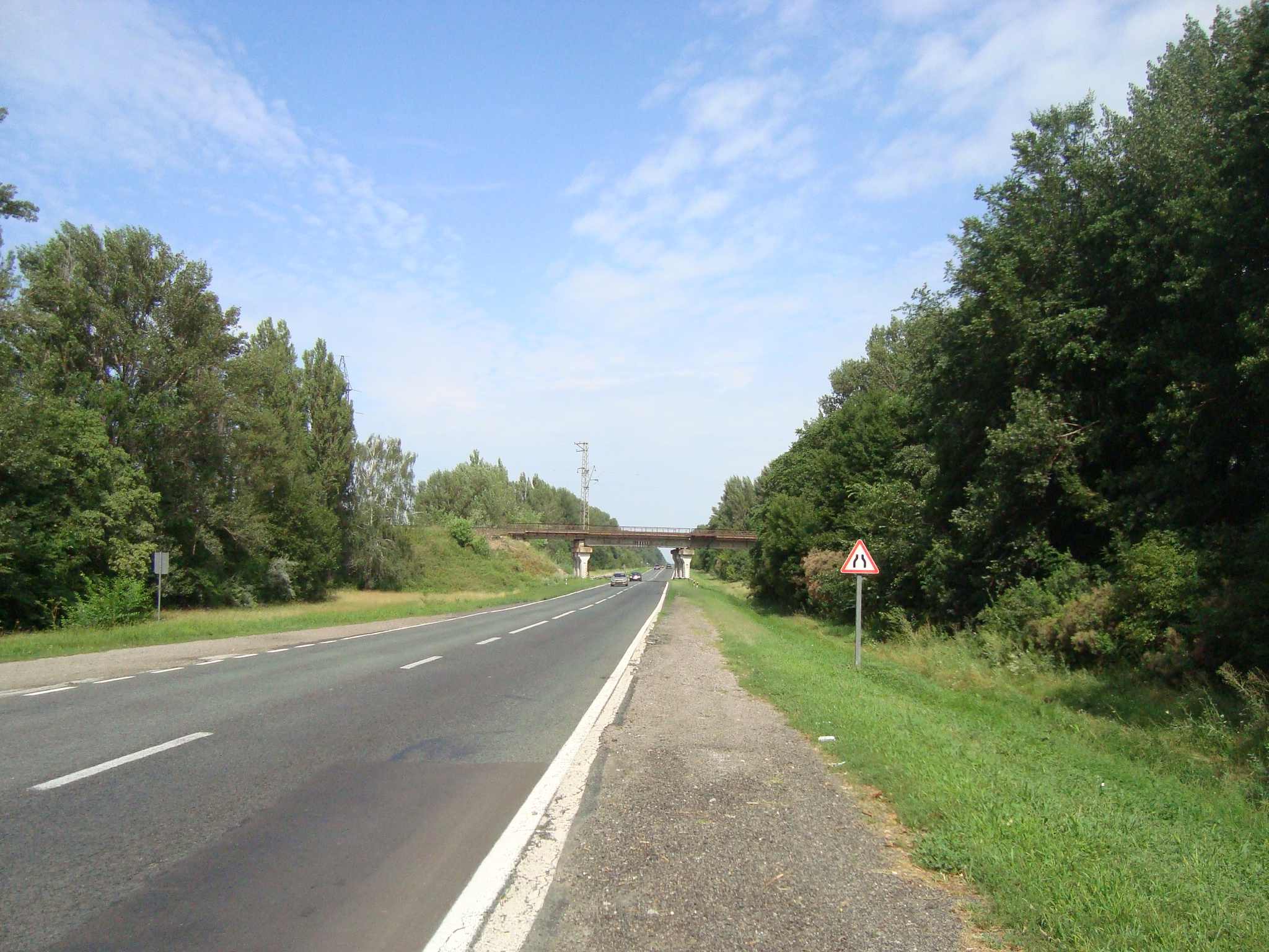 Road H 01 between Obukhiv and Kaharlyk Raion in Ukraine. Before railway overpass Kiev-Dnepropetrovsk.